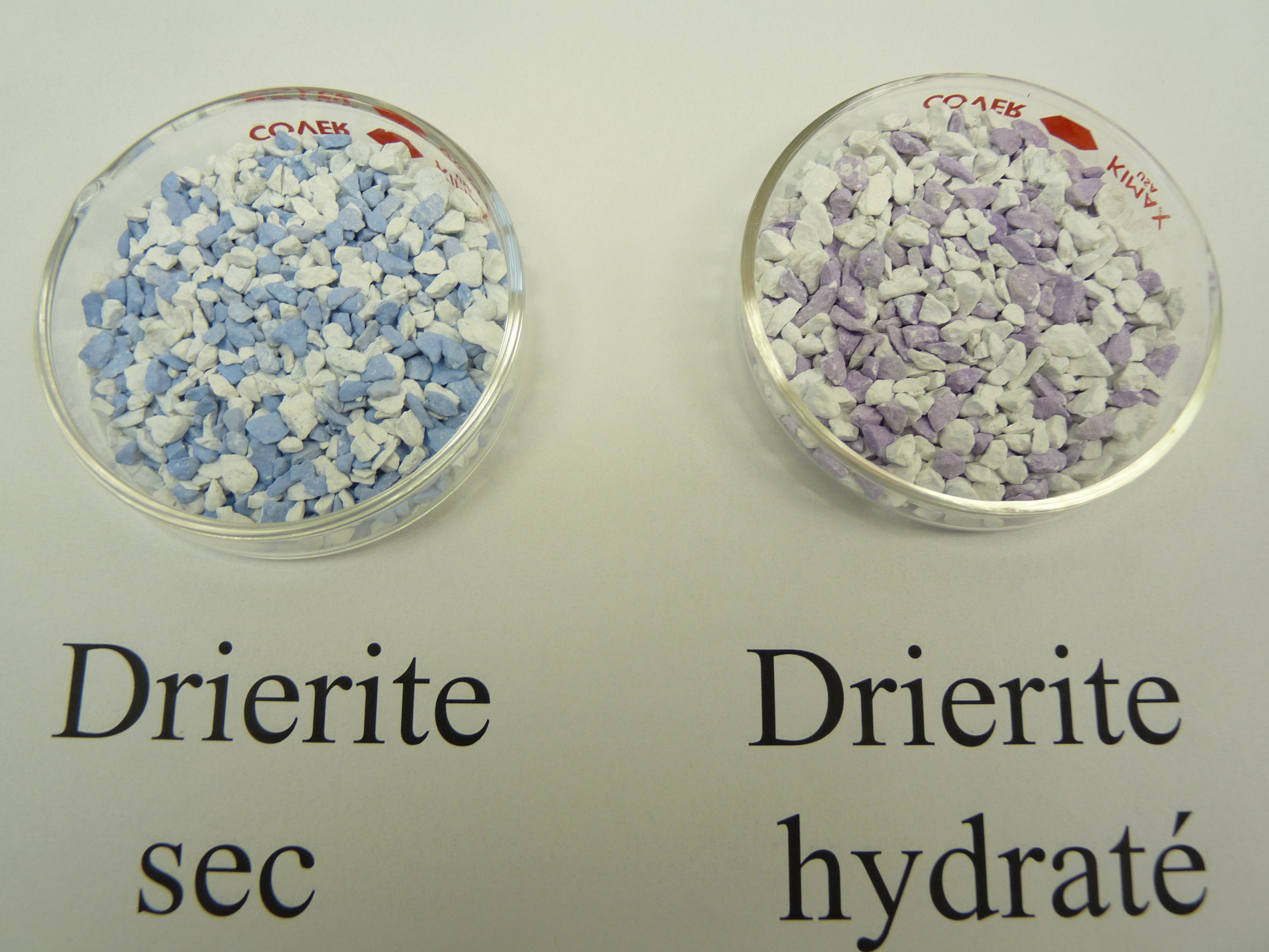 Drierite - brand name and registered trademark - desiccant made from calcium sulfate (gypsum) - with color indicator